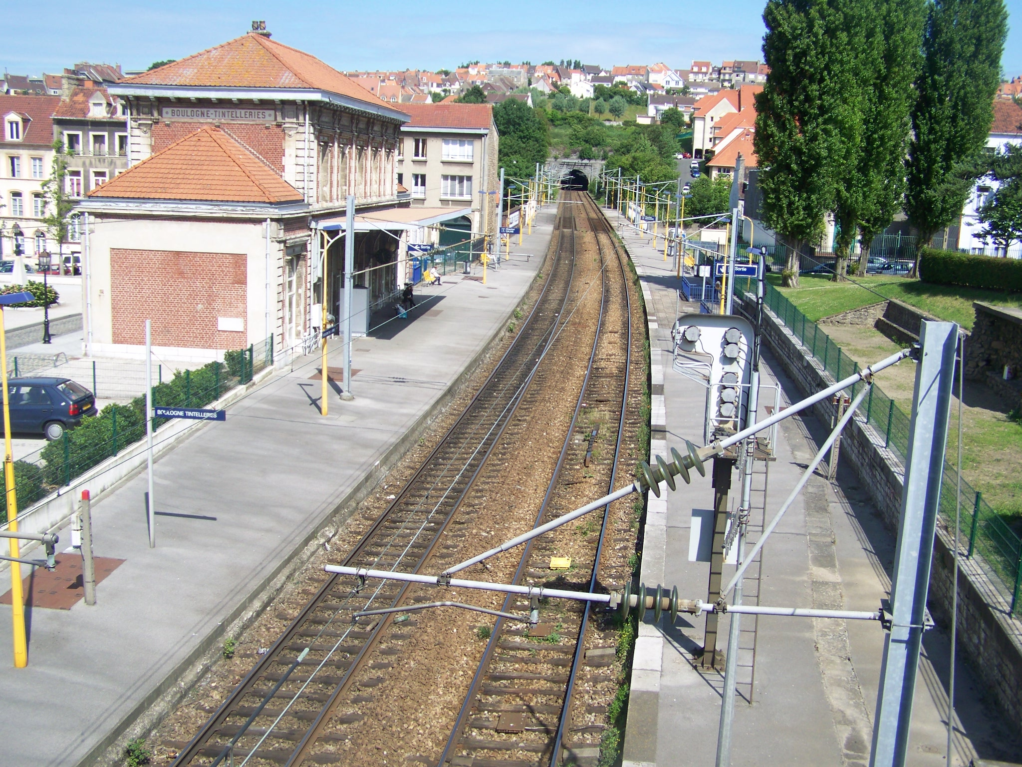 Little railway station of Boulogne-Tintelleries in Pas-de-Calais, France.